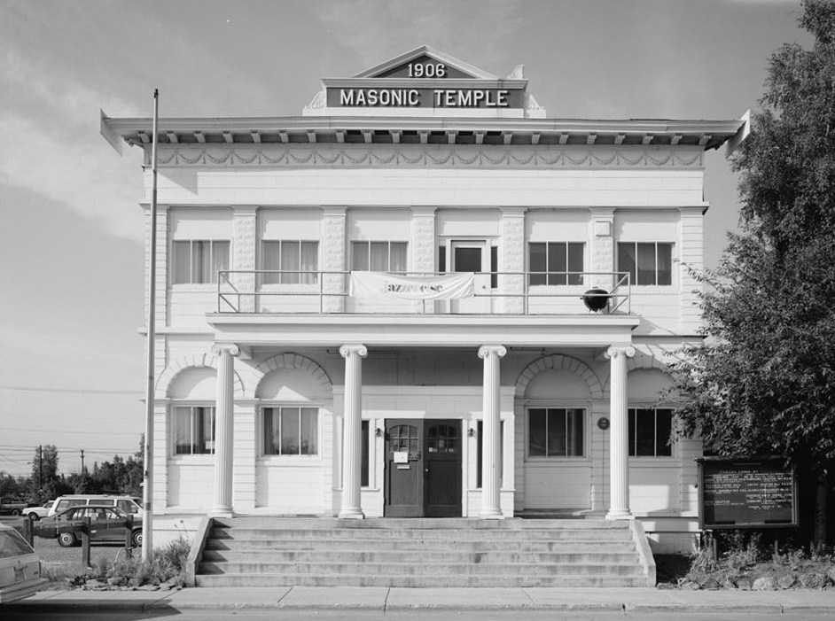 Masonic Temple, 809 First Avenue, Fairbanks (Fairbanks North Star Borough, Alaska) cropped This file comes from the Historic American Buildings Survey (HABS), Historic American Engineering Record (HAER) or Historic American Landscapes Survey (HALS). These are programs of the National Park Service established for the purpose of documenting historic places. Records consist of measured drawings, archival photographs, and written reports. When reusing please credit: Library of Congress, Prints & Photographs Division, AK,6-FAIBA,10-1 This tag does not indicate the copyright status of the attached work. A normal copyright tag is still required. See Commons:Licensing. This work is in the public domain in the United States because it is a work prepared by an officer or employee of the United States Government as part of that person’s official duties under the terms of Title 17, Chapter 1, Section 105 of the US Code. Note: This only applies to original works of the Federal Government and not to the work of any individual U.S. state, territory, commonwealth, county, municipality, or any other subdivision. This template also does not apply to postage stamp designs published by the United States Postal Service since 1978. (See § 313.6(C)(1) of Compendium of U.S. Copyright Office Practices). It also does not apply to certain US coins; see The US Mint Terms of Use. This file has been identified as being free of known restrictions under copyright law, including all related and neighboring rights. Object location64° 50′ 39″ N, 147° 43′ 36″ W